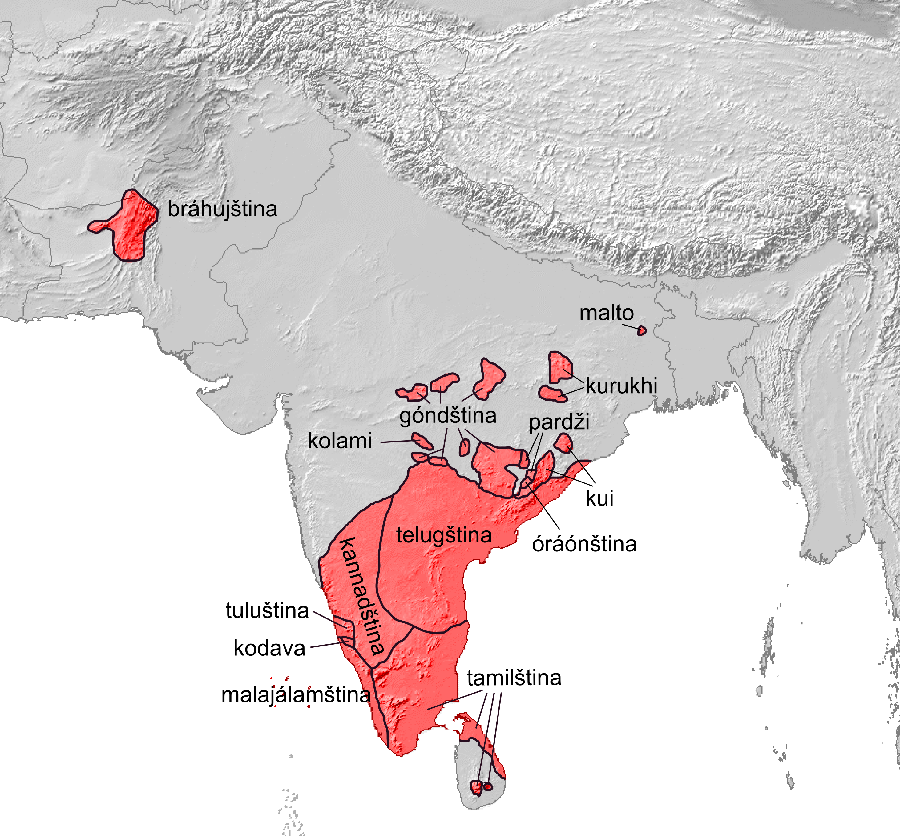 Map of Dravidian language with legend in Czech. Based on: Image:Dravidische Sprachen.png File:Dravidische Sprachen Verbreitung.png